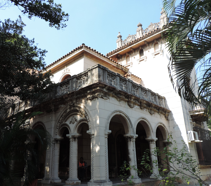 Sede del Centro Onelio